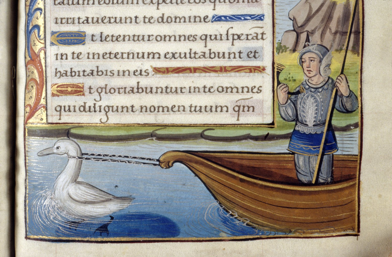 The Knight of the Swan, miniature from a 15th-century book of hours (Oxford, Bodleian Library, MS Douce 276, folio 095r